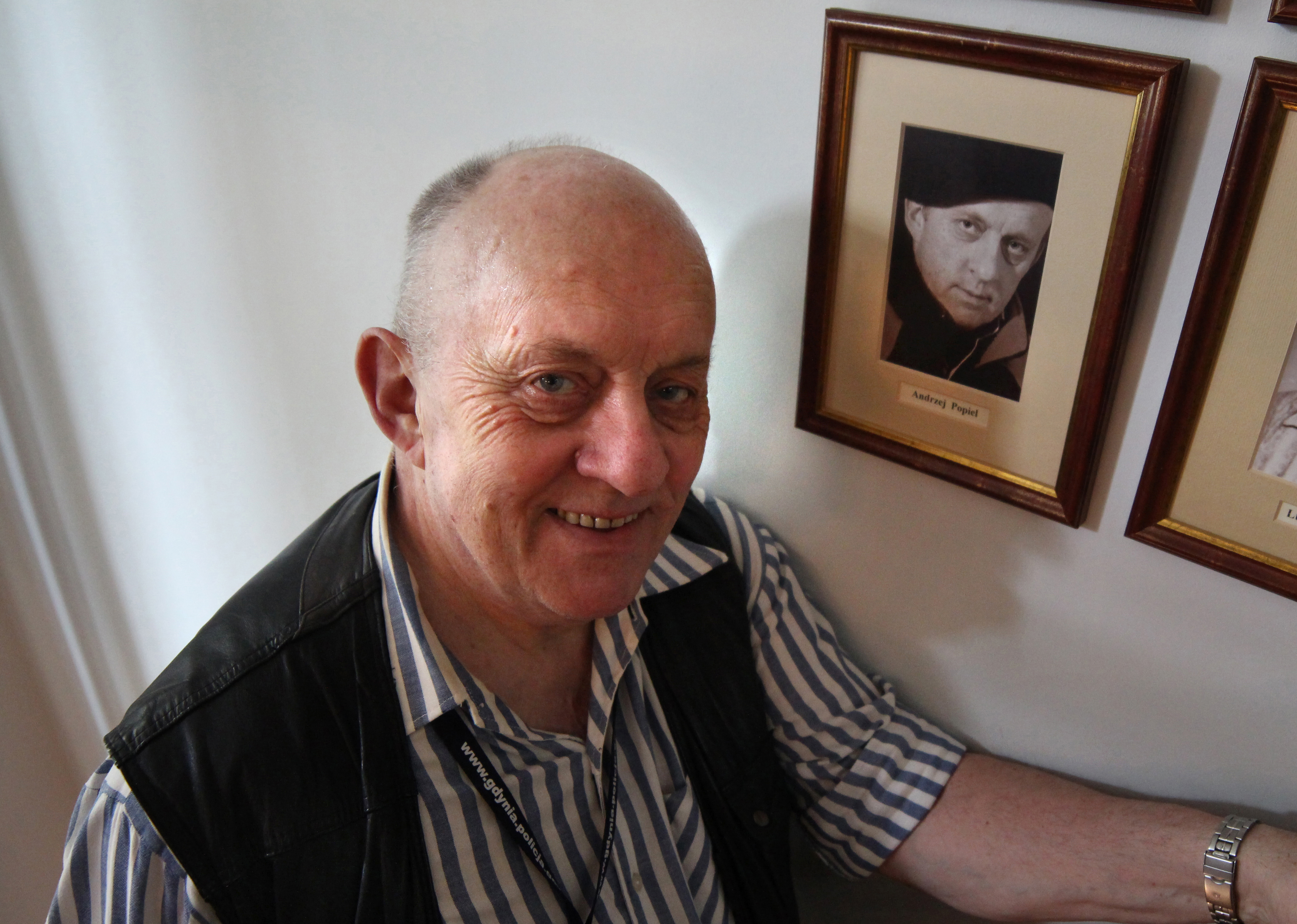 Andrzej Popiel (born 1936), Polish theatre and film actor, a longtime member of the ensemble of Danuta Baduszkowa Music Theatre in Gdynia; photographed in the Actor's Club at Mariacka Street 2/3 in Gdańsk, Poland, next to his portrait taken several dozen years earlier.